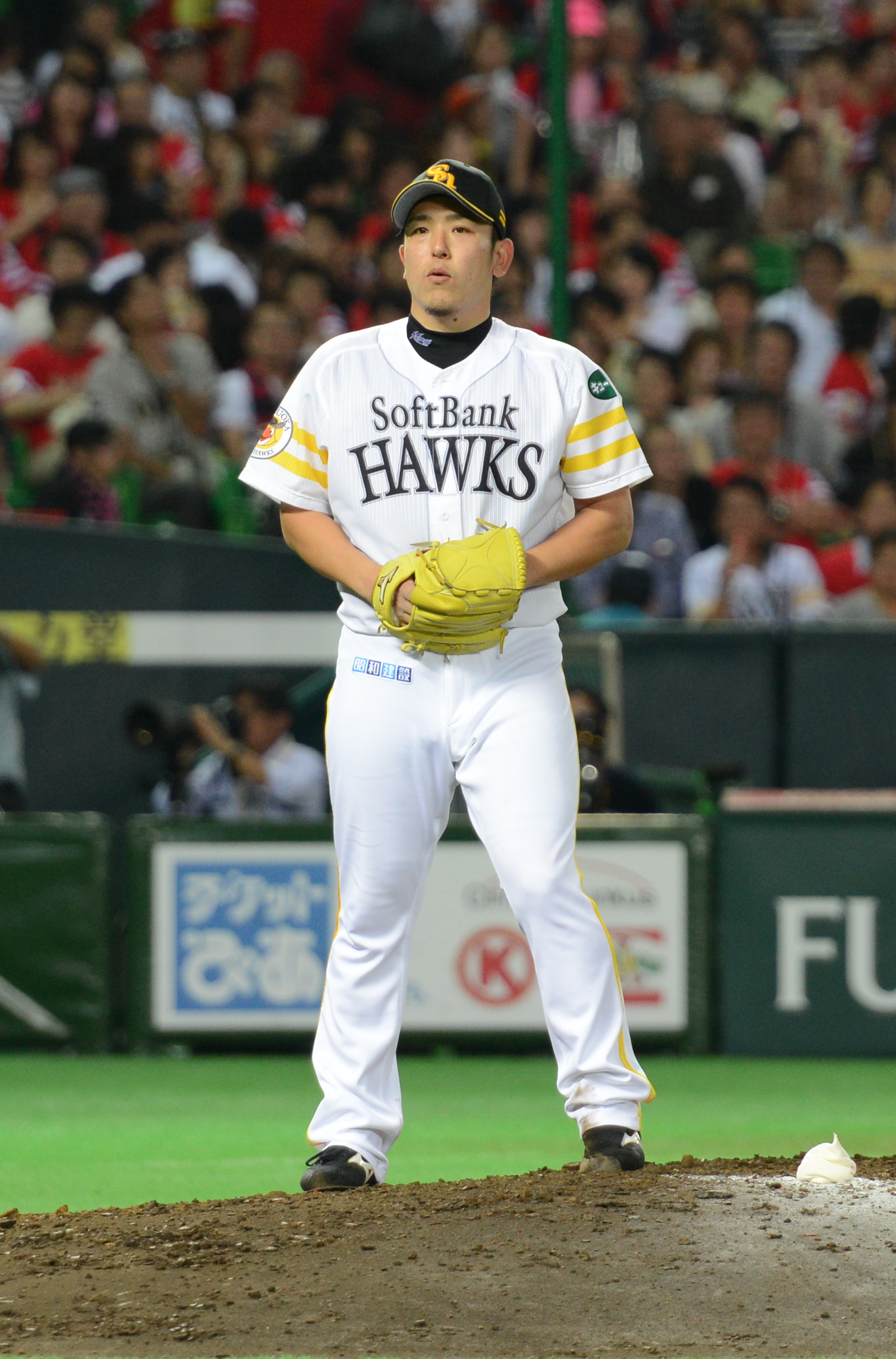 Kenji Otonari, pitcher of the Fukuoka SoftBank Hawks, at Fukuoka Dome.